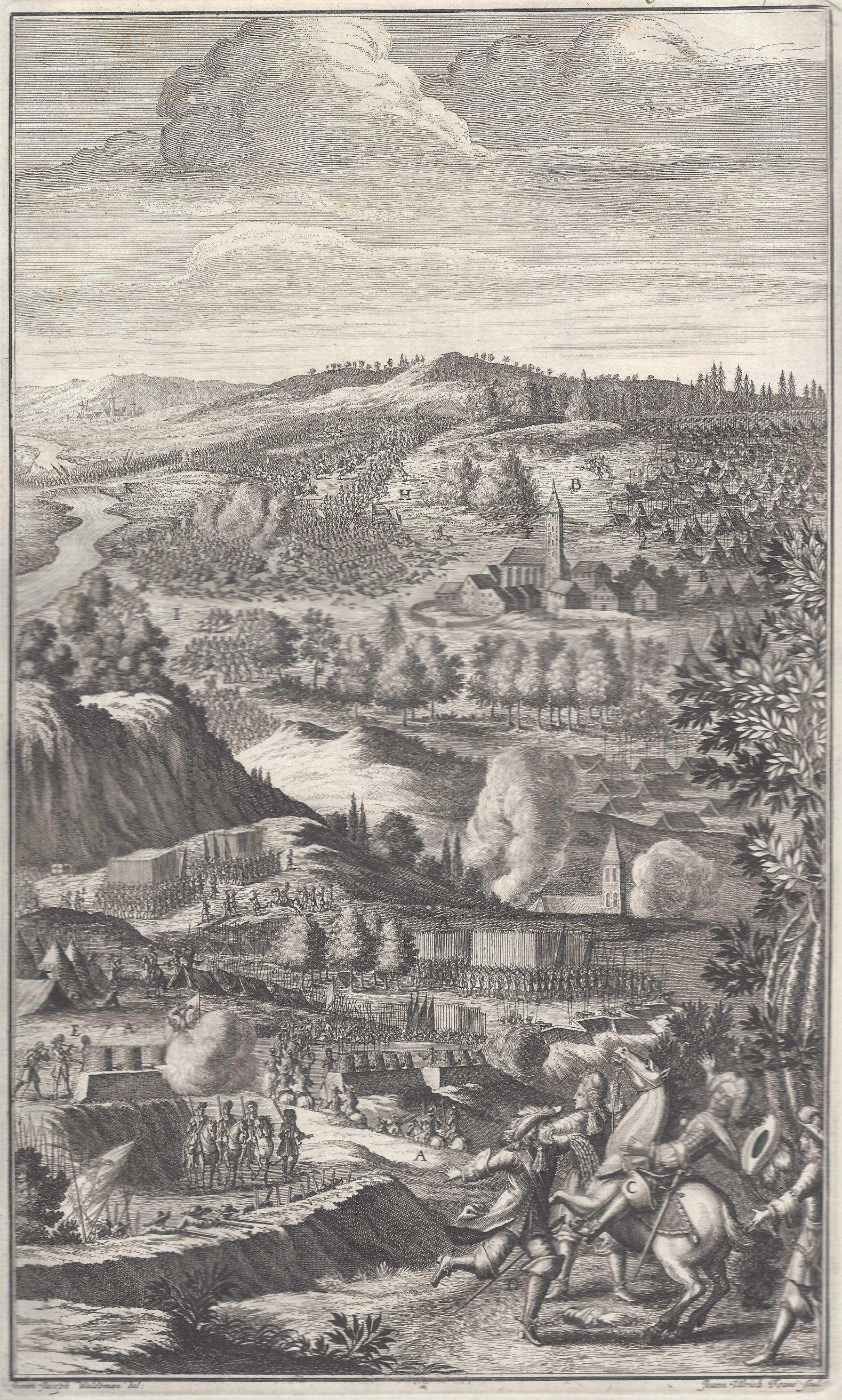 Battle of Sasbach 1675 with the death of Turenne